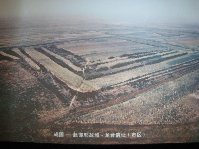 Zhao Handan Gucheng.